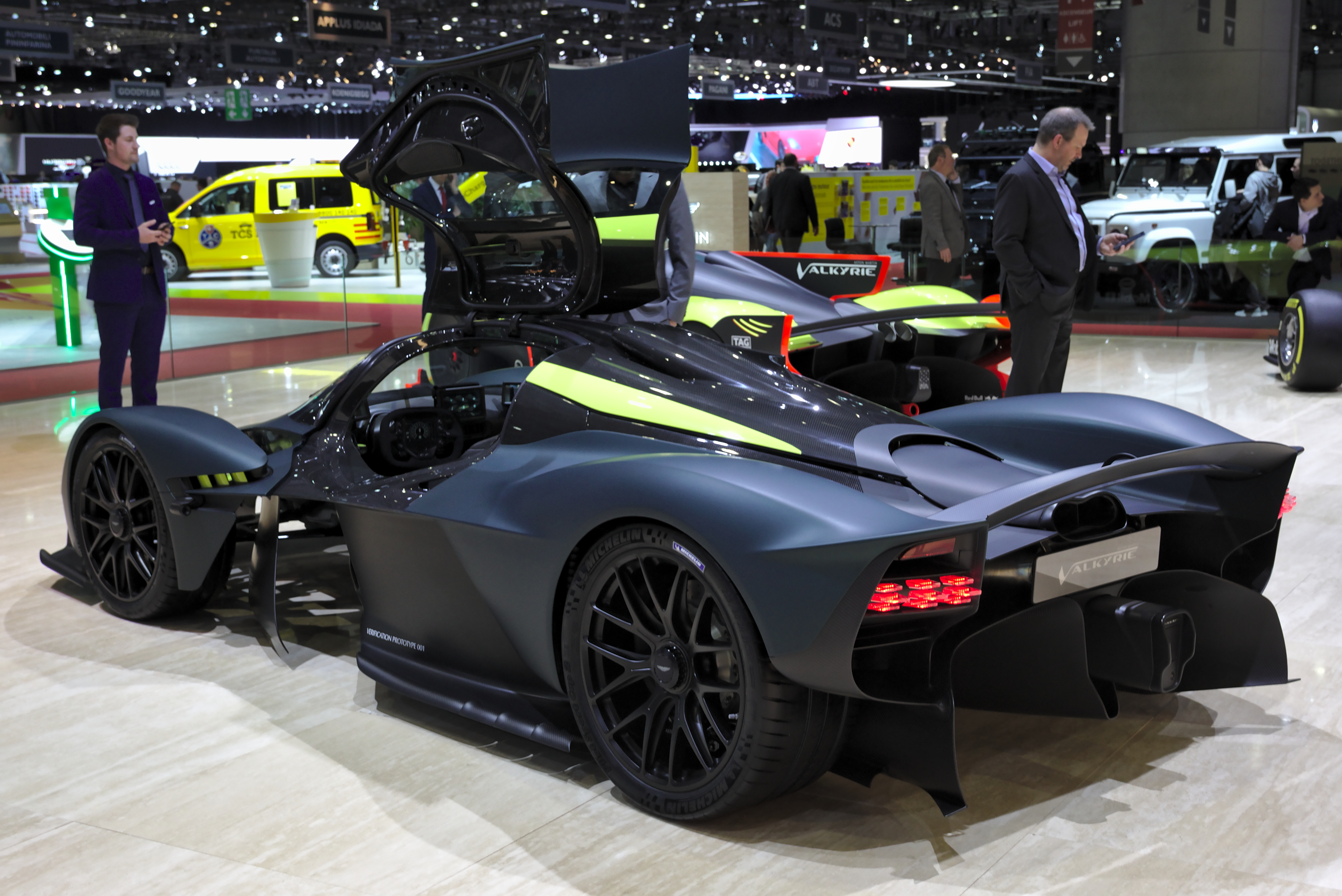 Aston Martin Valkyrie at Geneva Motor Show 2019